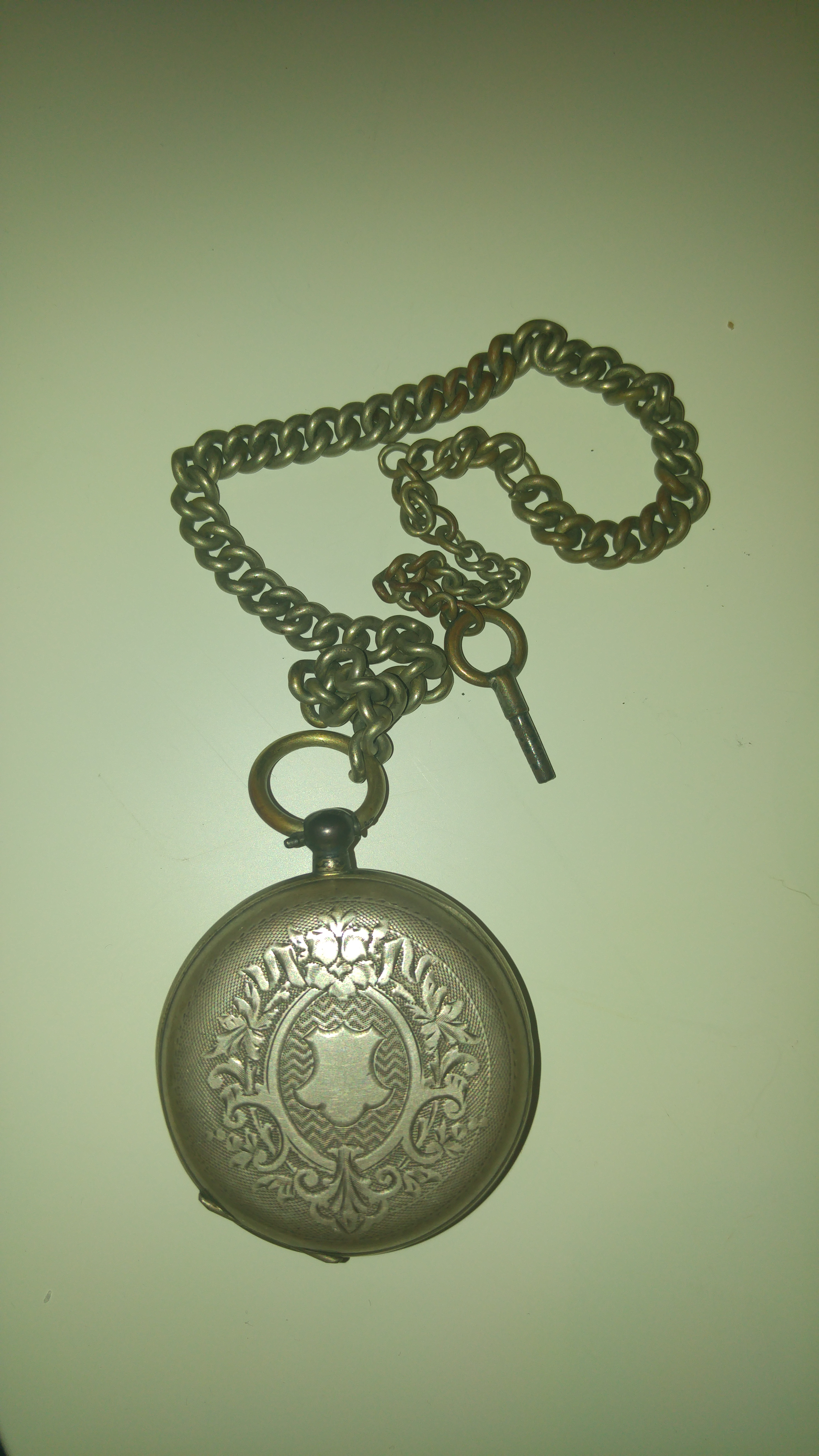 Taskukell